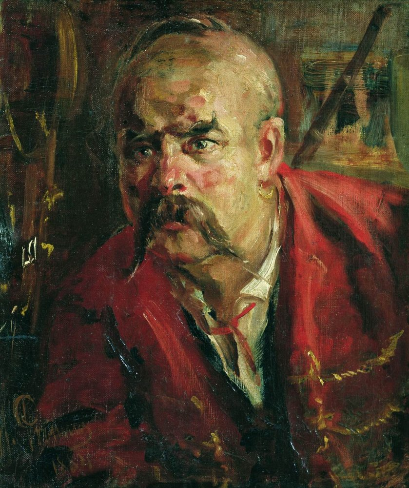 Study for the picture The Reply of the Zaporozhian Cossacks to Sultan of Turkey.